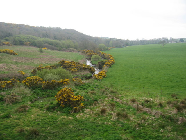 The Santon Burn near Ballaglonney. The Santon Burn near Ballaglonney taken from the steam railway.